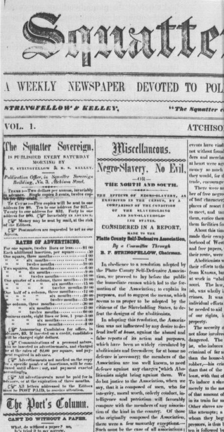 Squatter Sovereign newspaper Atchison Kansas 1855 url = PD published in US before 1923